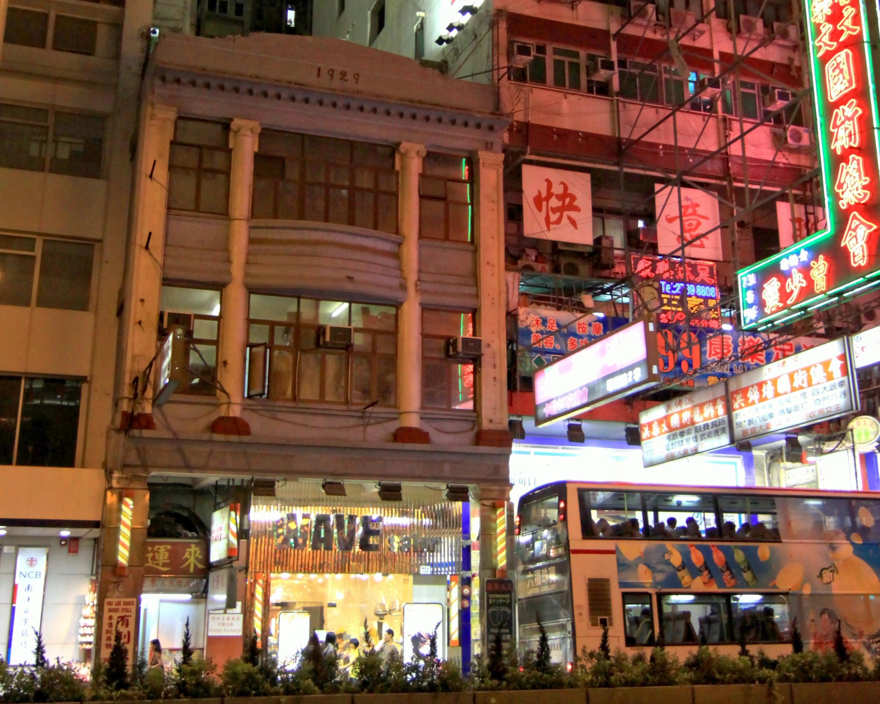 729 Nathan Road